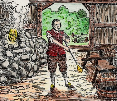 Polish-American glassblower with a Hessian crucible in the background, as per historical descriptions of the Jamestown colony